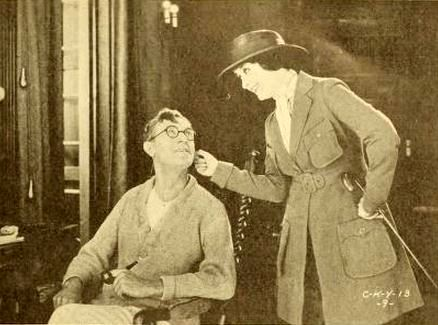 Still from the American film Cheating Cheaters (1919) with Clara Kimball Young, on page 513 of the January 25, 1919 Moving Picture World.